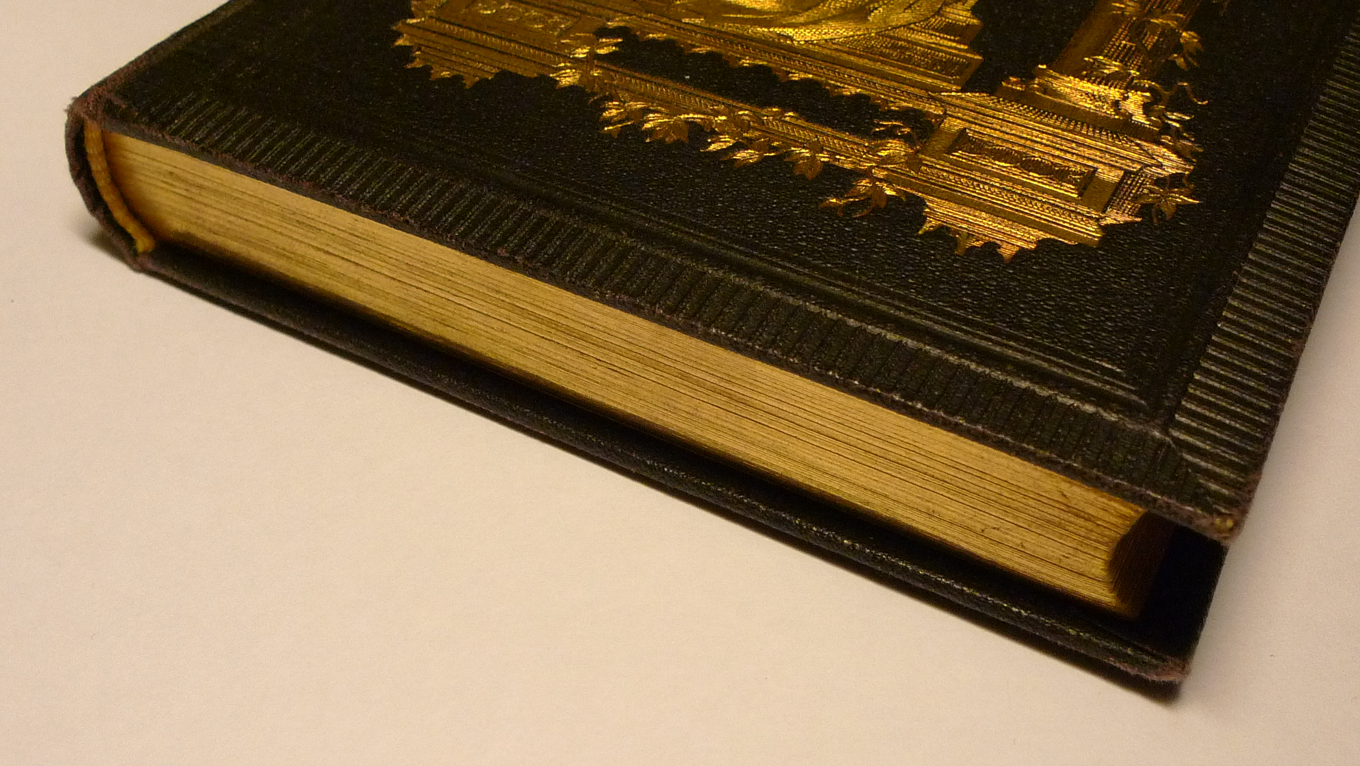 A close-up picture of an old book with gilded page edges.